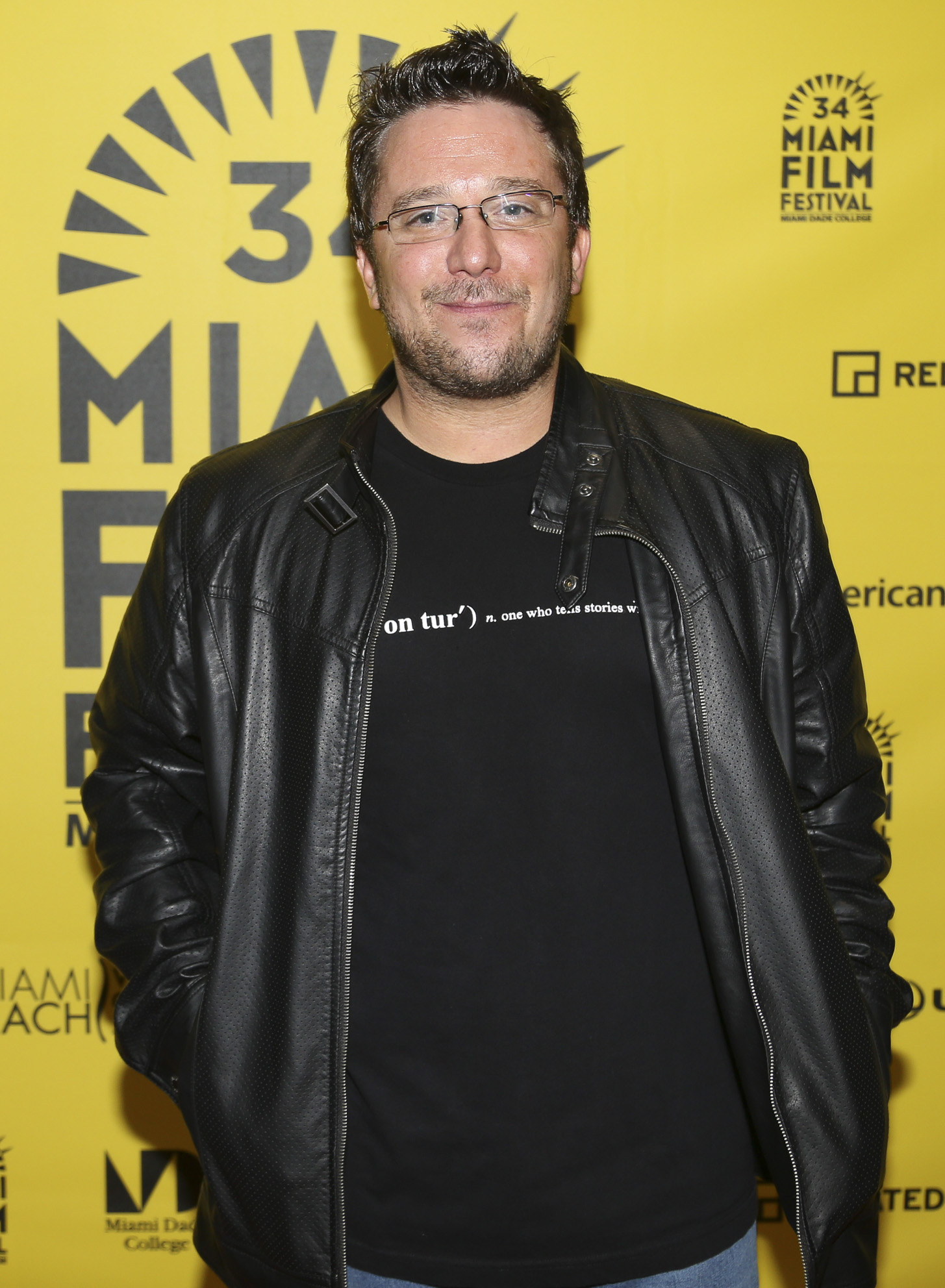 Billy Corben at the 2017 Miami International Film Festival presentation of Straight Out Of Miami: rakontur Previews New Work